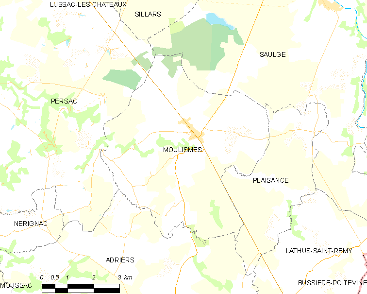 Map of French municipality Moulismes